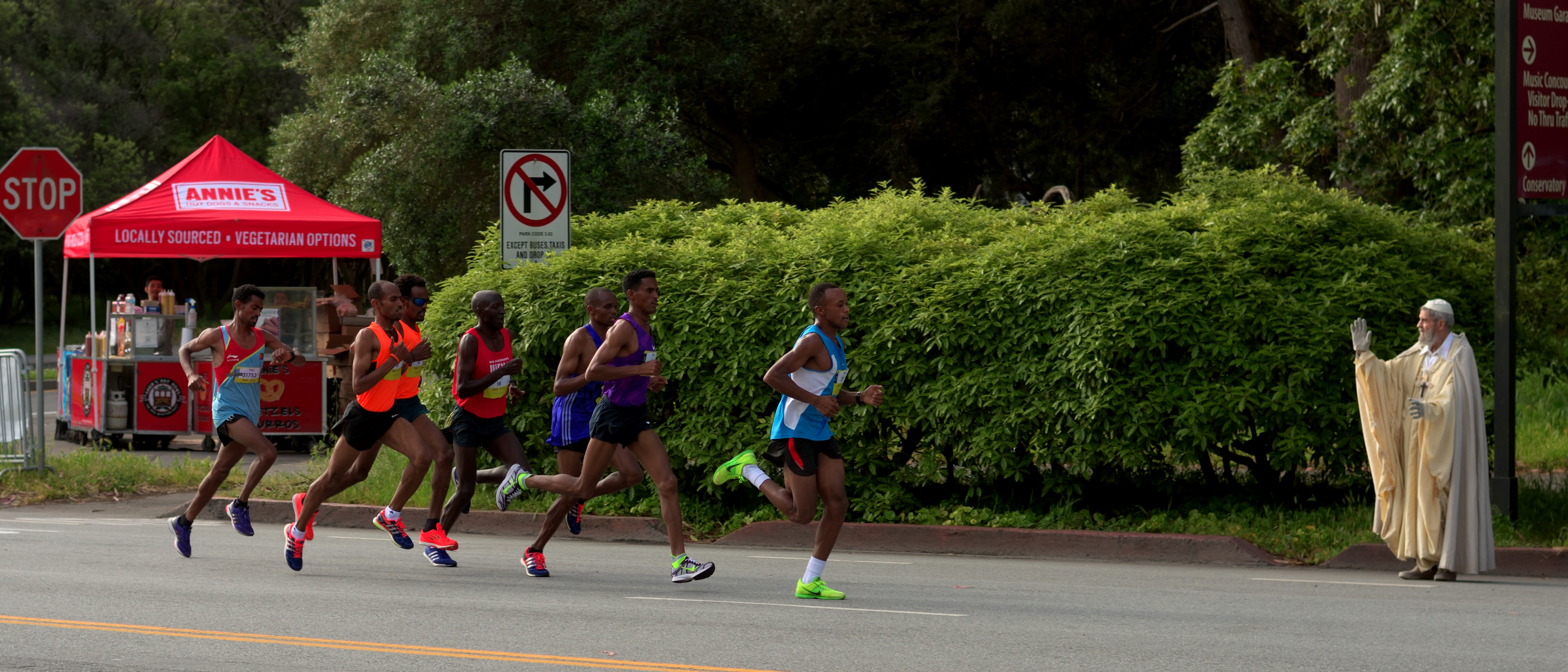 Mens elite runners B2B 2016